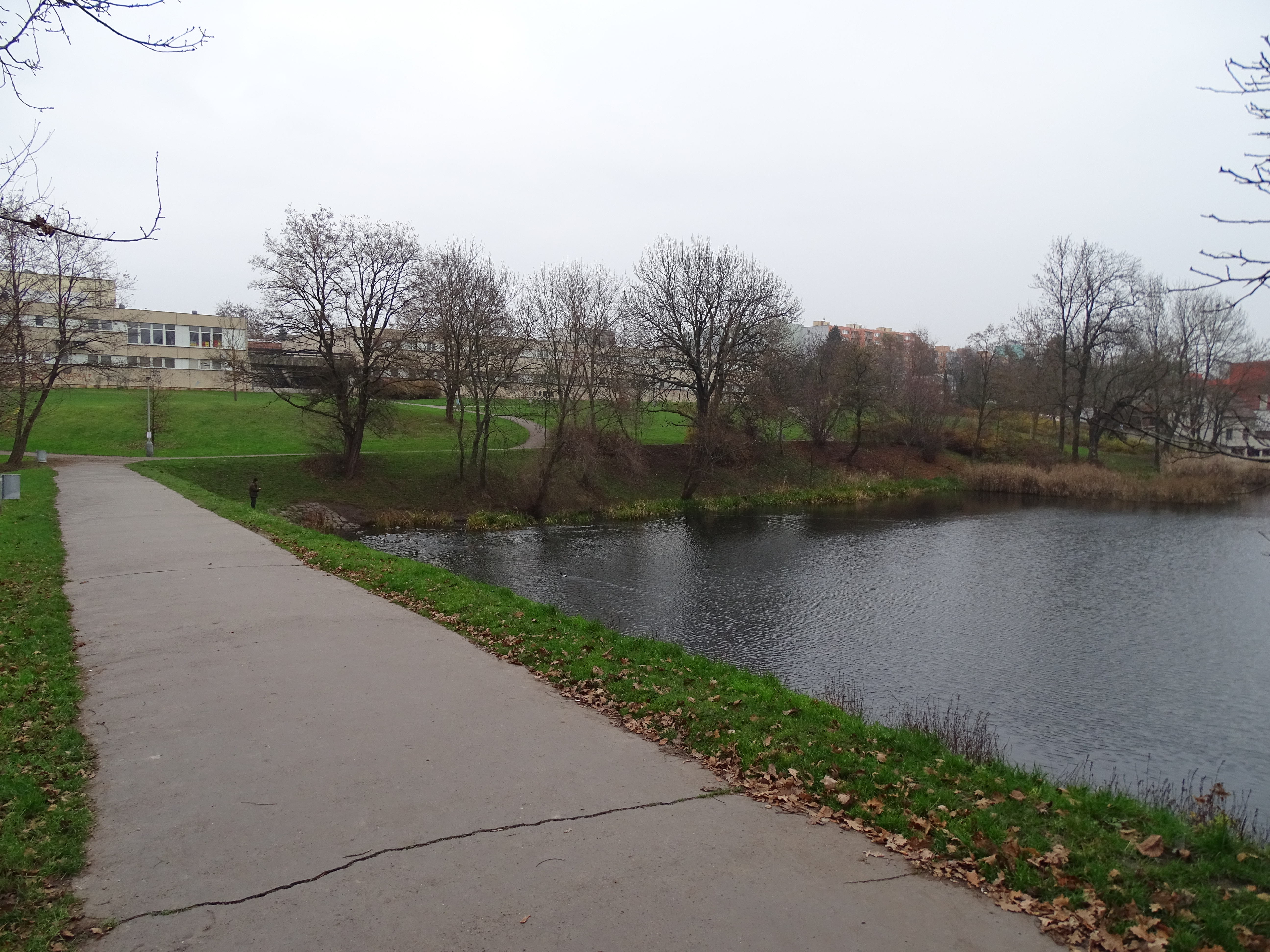 Prague-Čimice, Czech Republic. Čimice Pond.